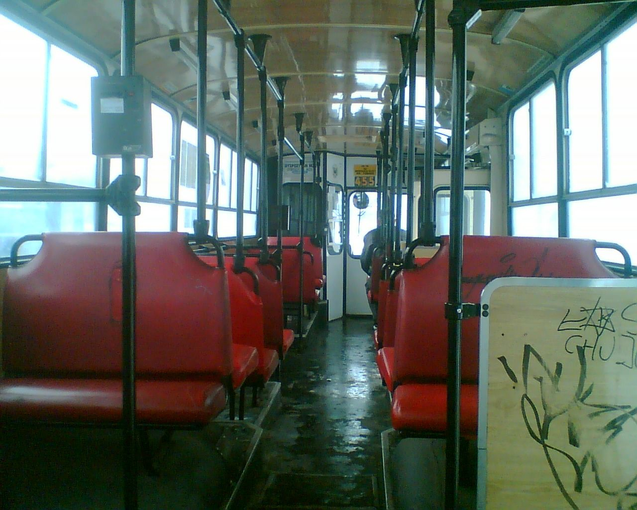 Jelcz 120M bus interior (#455, reg. EPA 91FM, built 1994) from MZK Pabianice in Pabianice, Łódź Voivodeship, Poland.